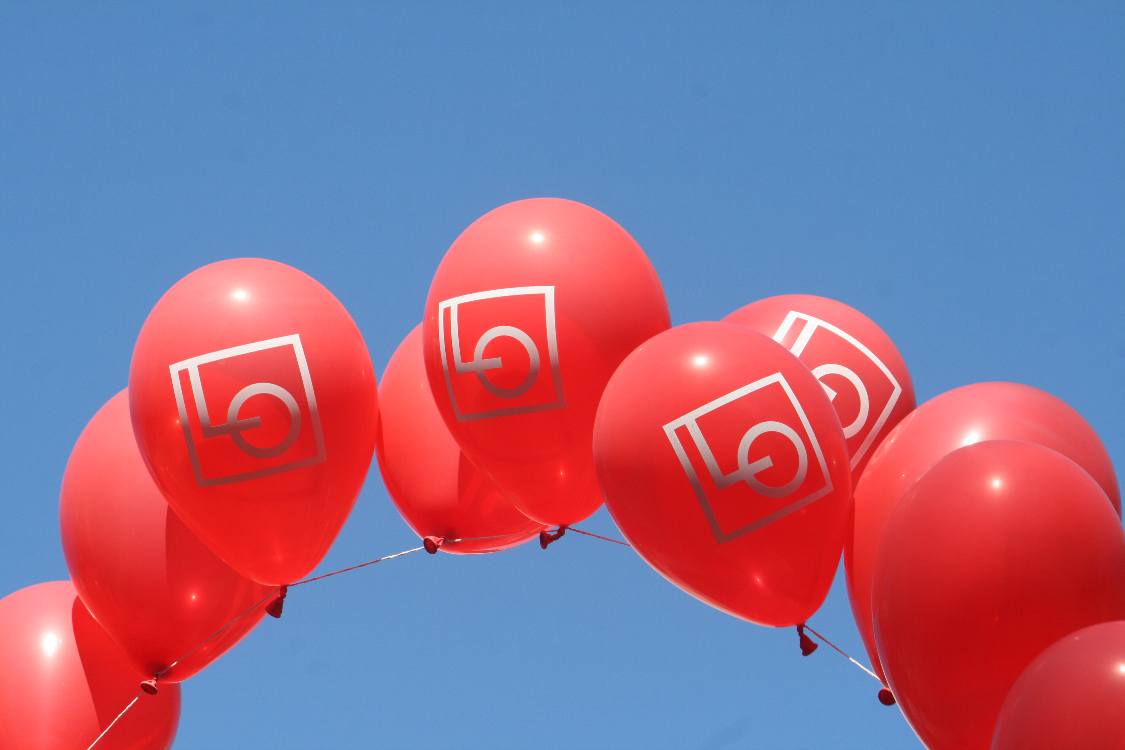 Balloons from the Norwegian Confederation of Trade Unions (LO). Picture taken at Oslo Pride 2015.